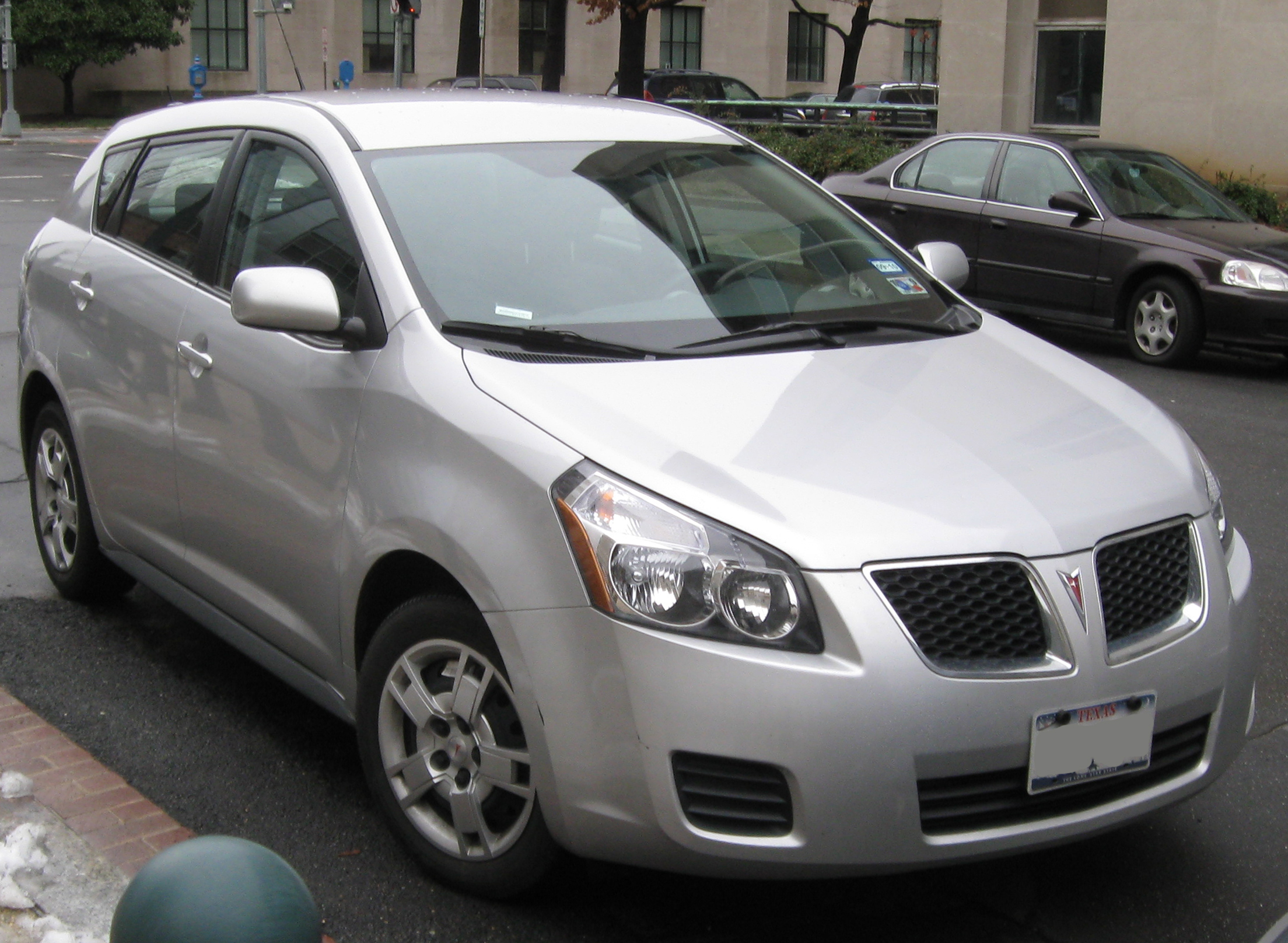 2009-2010 Pontiac Vibe photographed in Washington, D.C., USA.